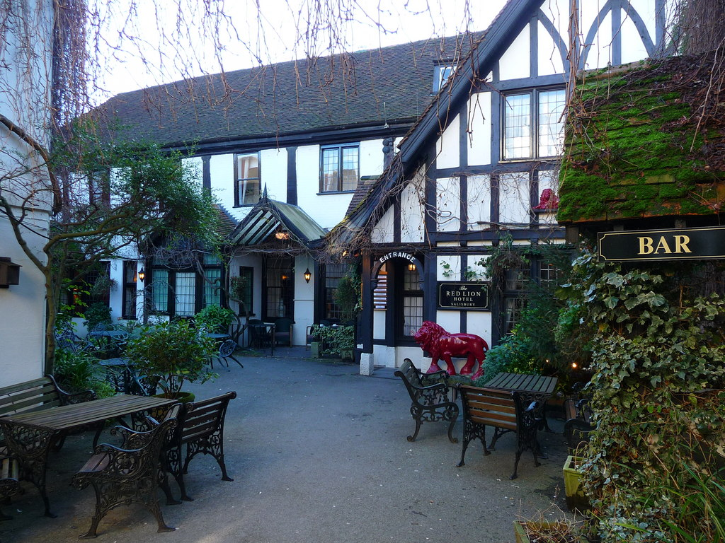 Salisbury - Red Lion Hotel. Courtyard of the Red Lion Hotel.